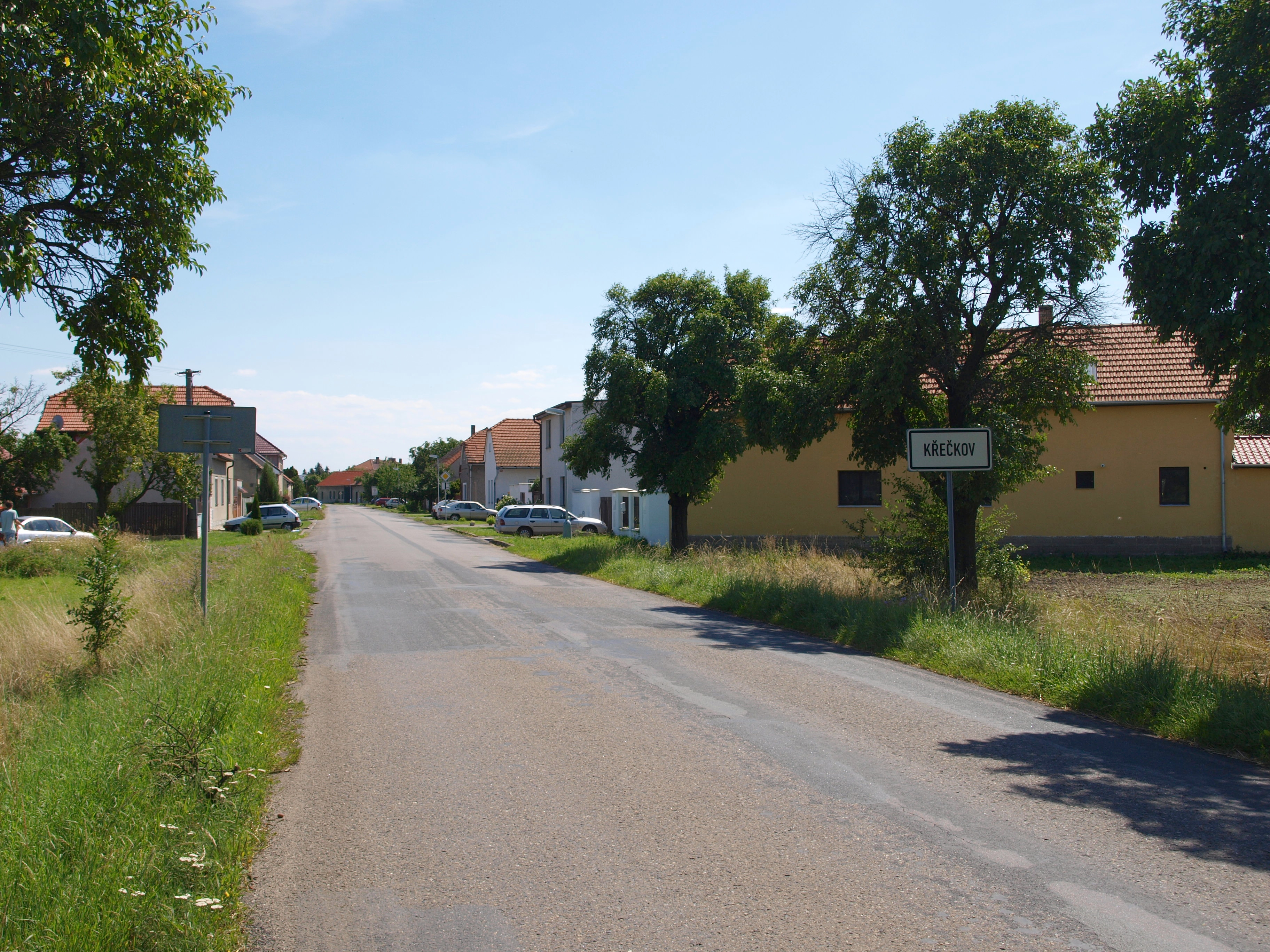 Road from Budiměřice, Křečkov, Nymburk District, Central Bohemian Region